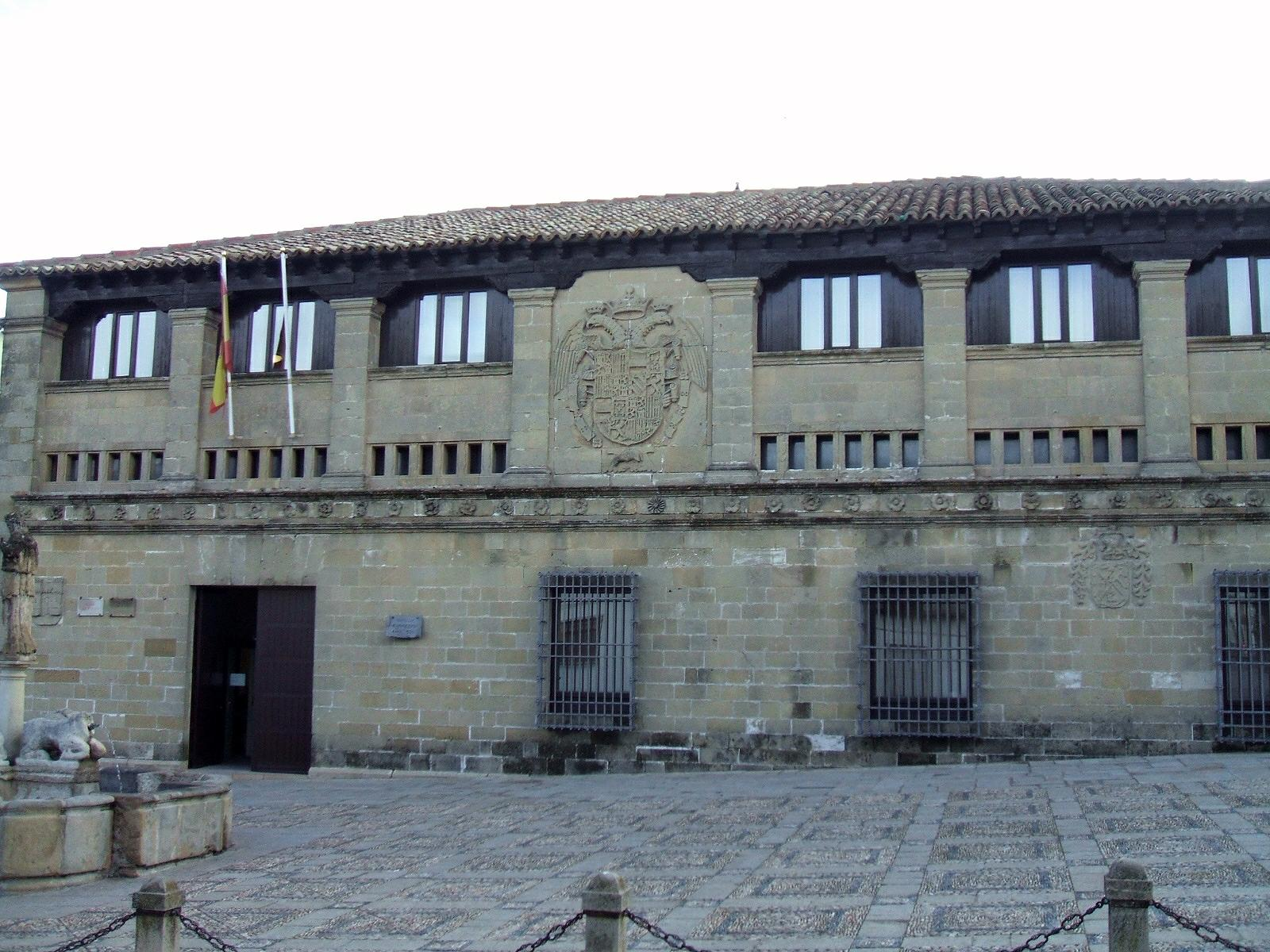 Antigua Carnicería, en la Plaza del Pópulo de Baeza (Jaén, Andalucía, España)